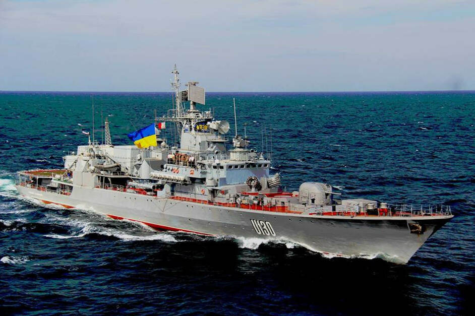 Ukrainian navy frigate Hetman Sahaydachniy